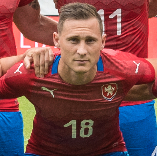 1/6/18St. Poelten, Austria, sports, football, International friendly - Australia vs Czech Republic. Image shows the team of Czech Republic.